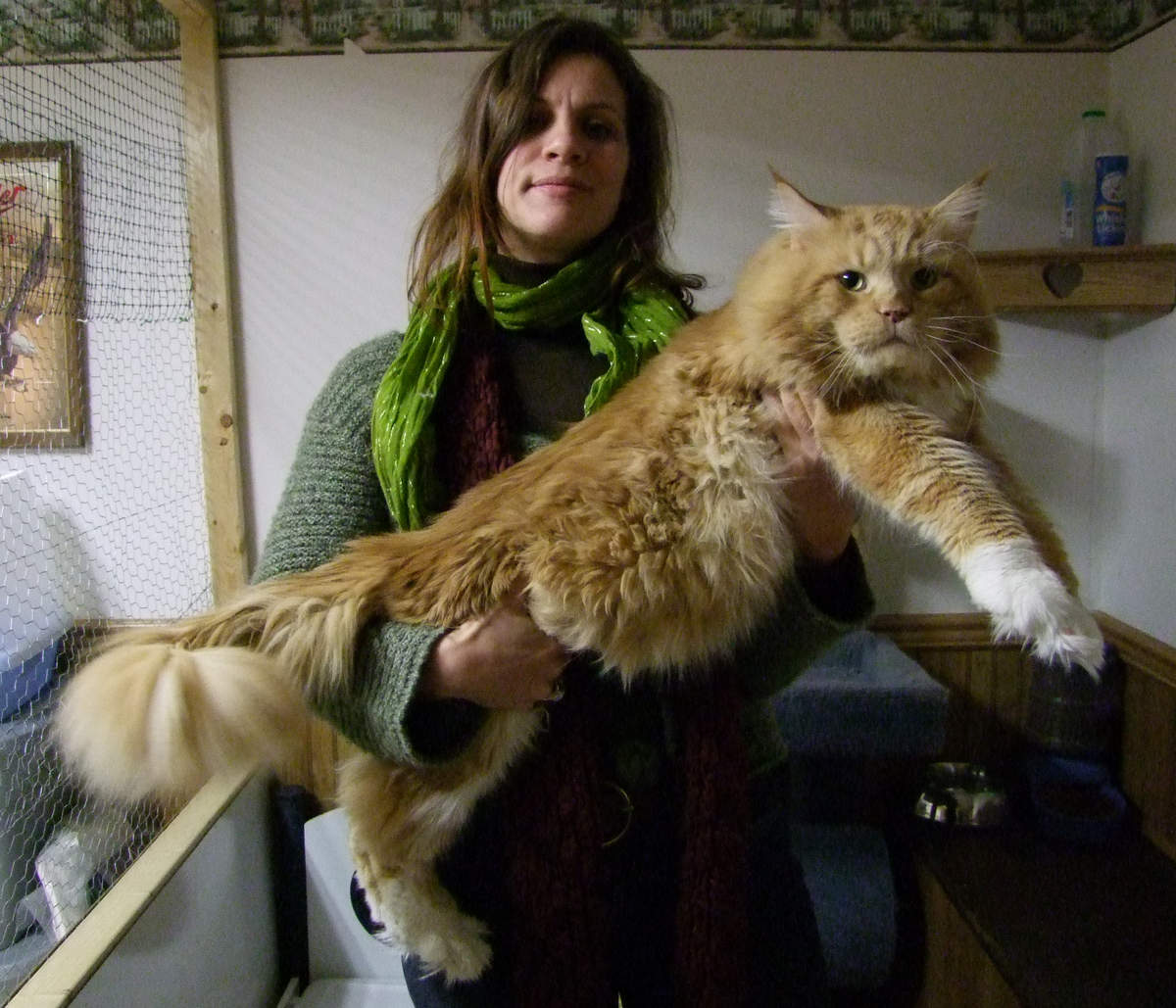 Red Tabby With White Paws Large Maine Coon Cat Male